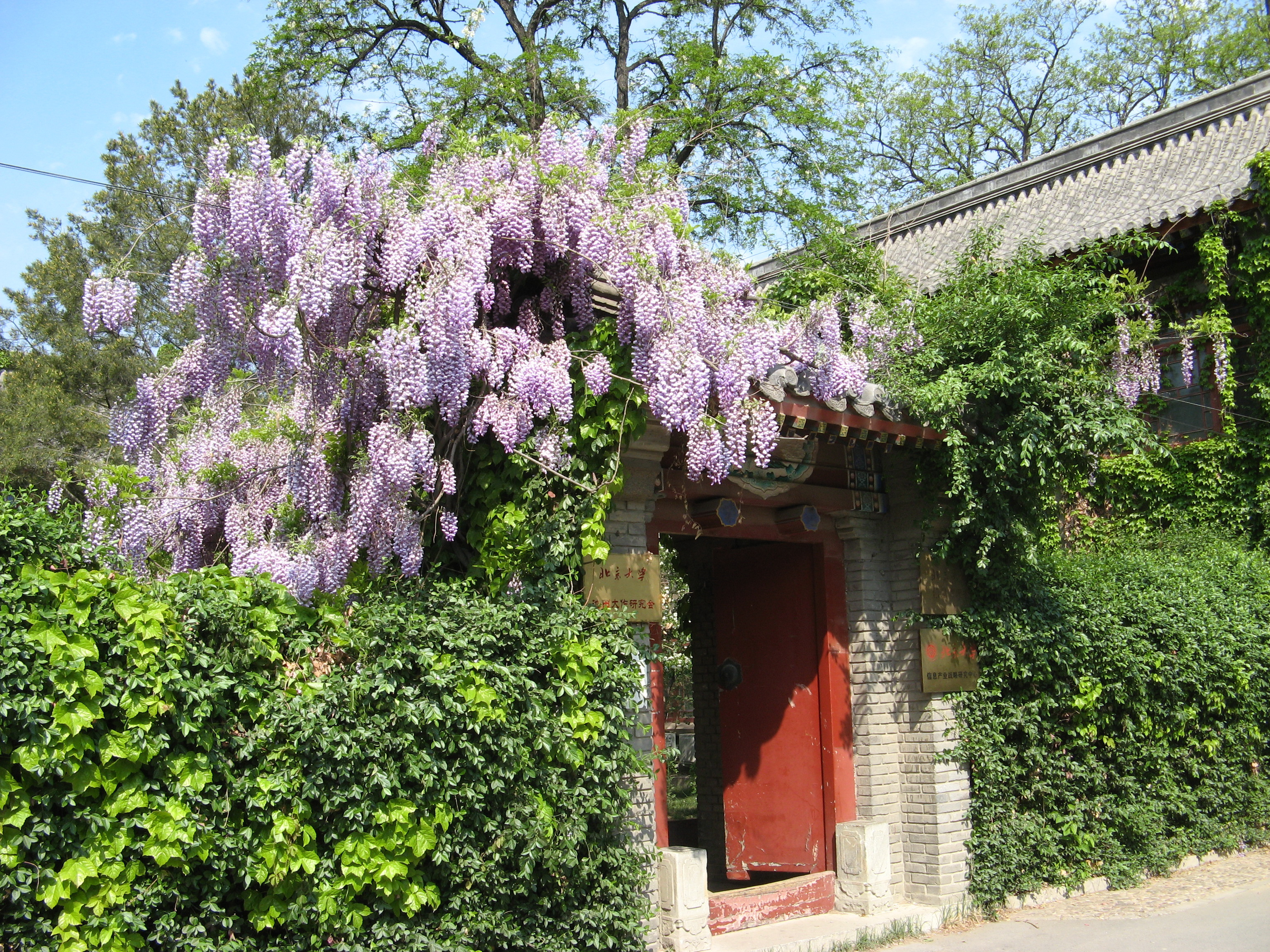 Jingyuan Garden, Peking University